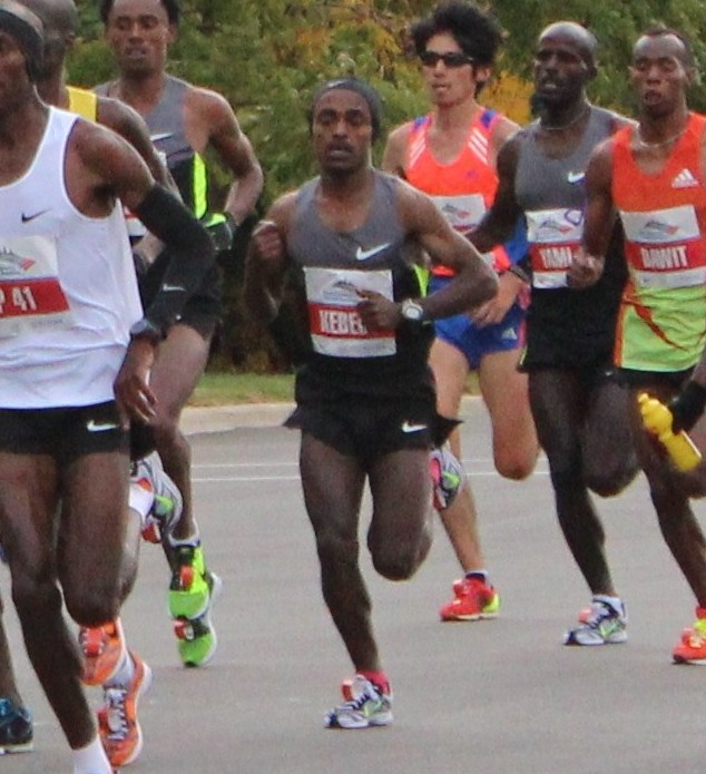 2012 Chicago Marathon - Tsegaye Kebede